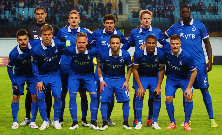 FC Dinamo Moscow 2015